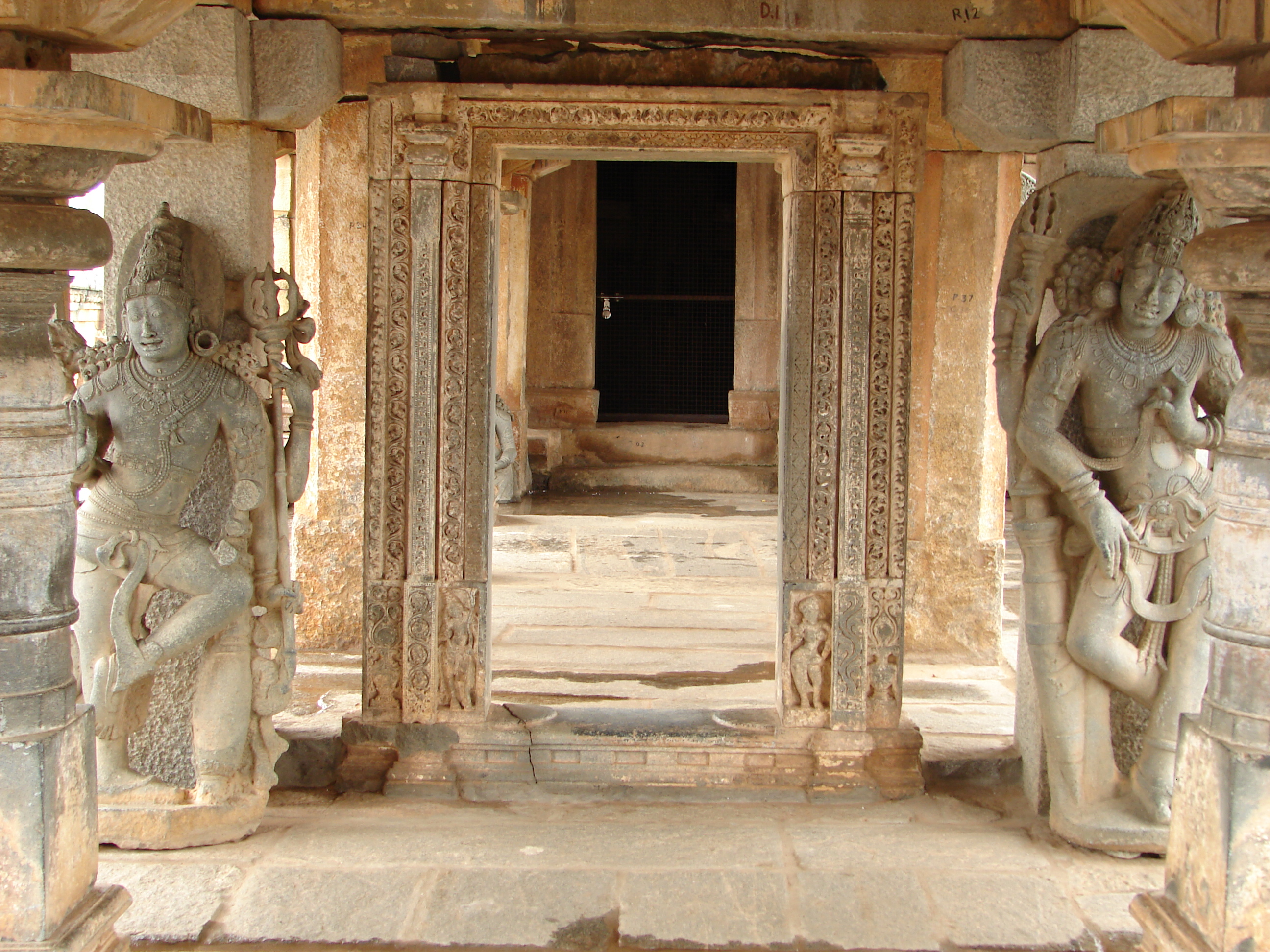 This photograph was taken by me at the Panchakuta Basadi at Kambadahalli, Mandya district, Karnataka state, India. Kambadahalli was important Jain religious center during the 9th-10th century. This monument was built around 900 A.D. during the reign of the Western Ganga dynasty.